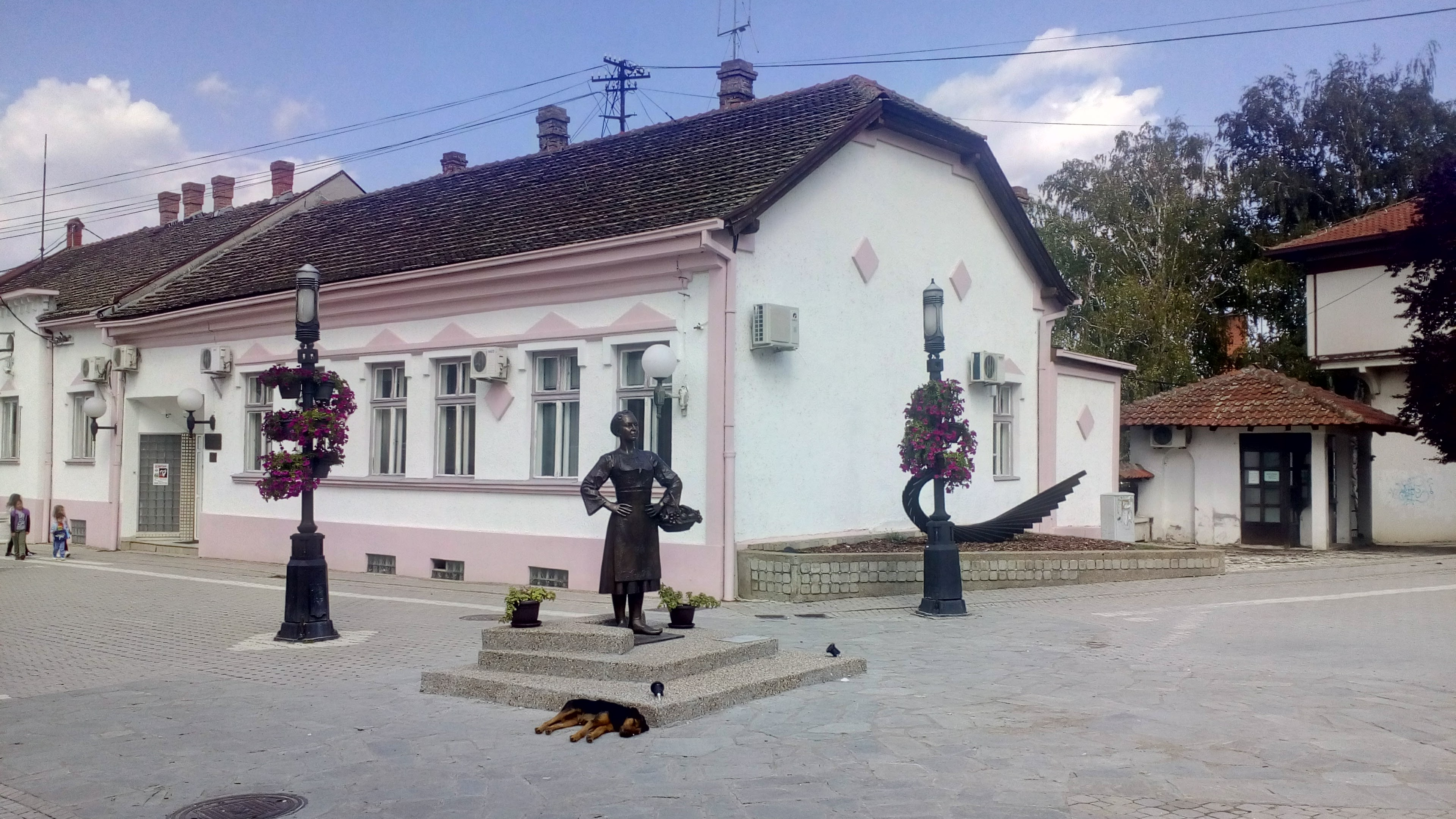 Sculpture "Gročanka" (a woman from Grocka) Grocka's Čaršija (Grocka, a town near Belgrade)